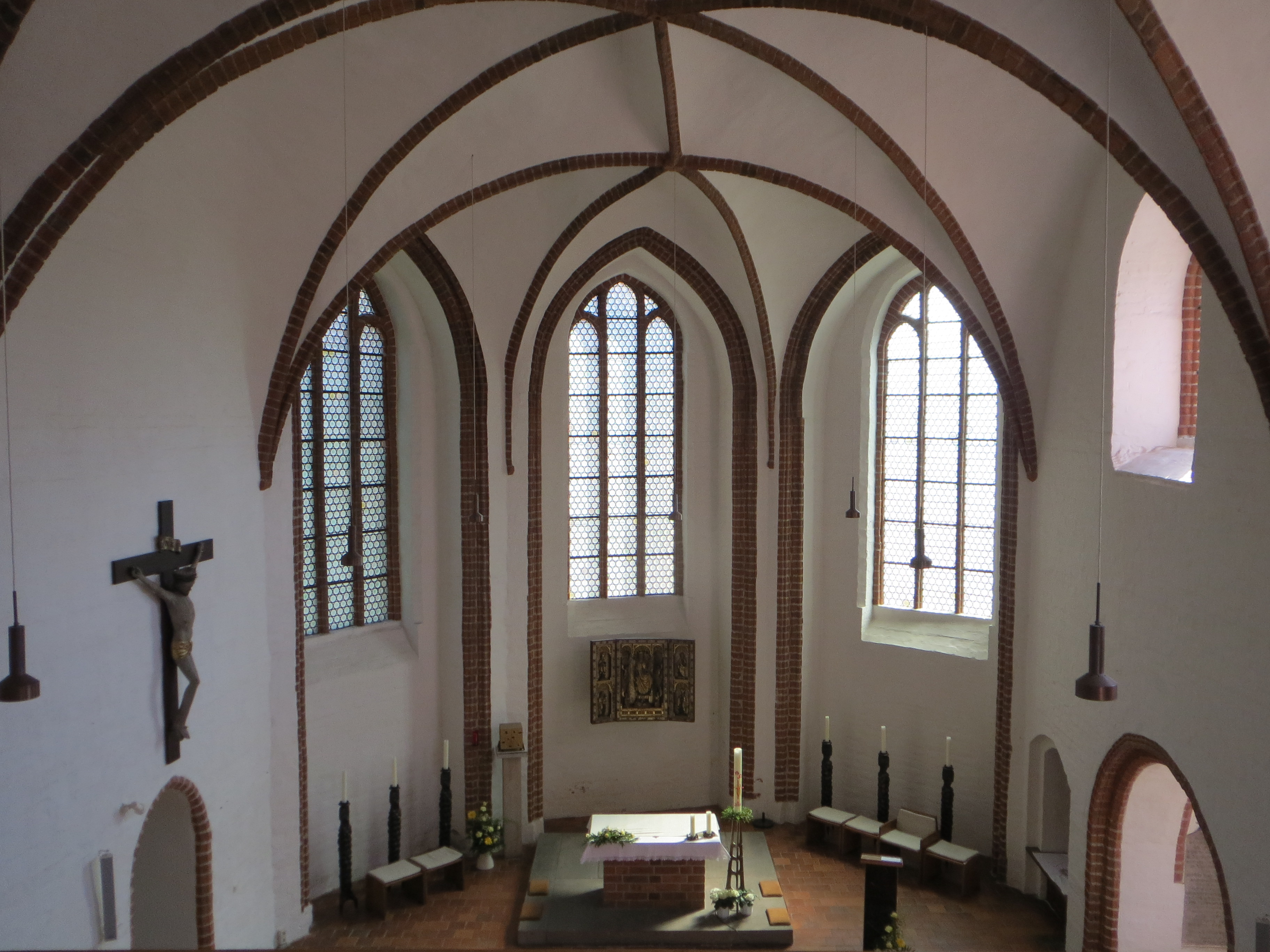 St. Anna in Stendal: view from nuns' balcony